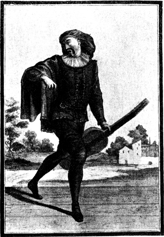 17th-Century Engraving of Scaramuccia